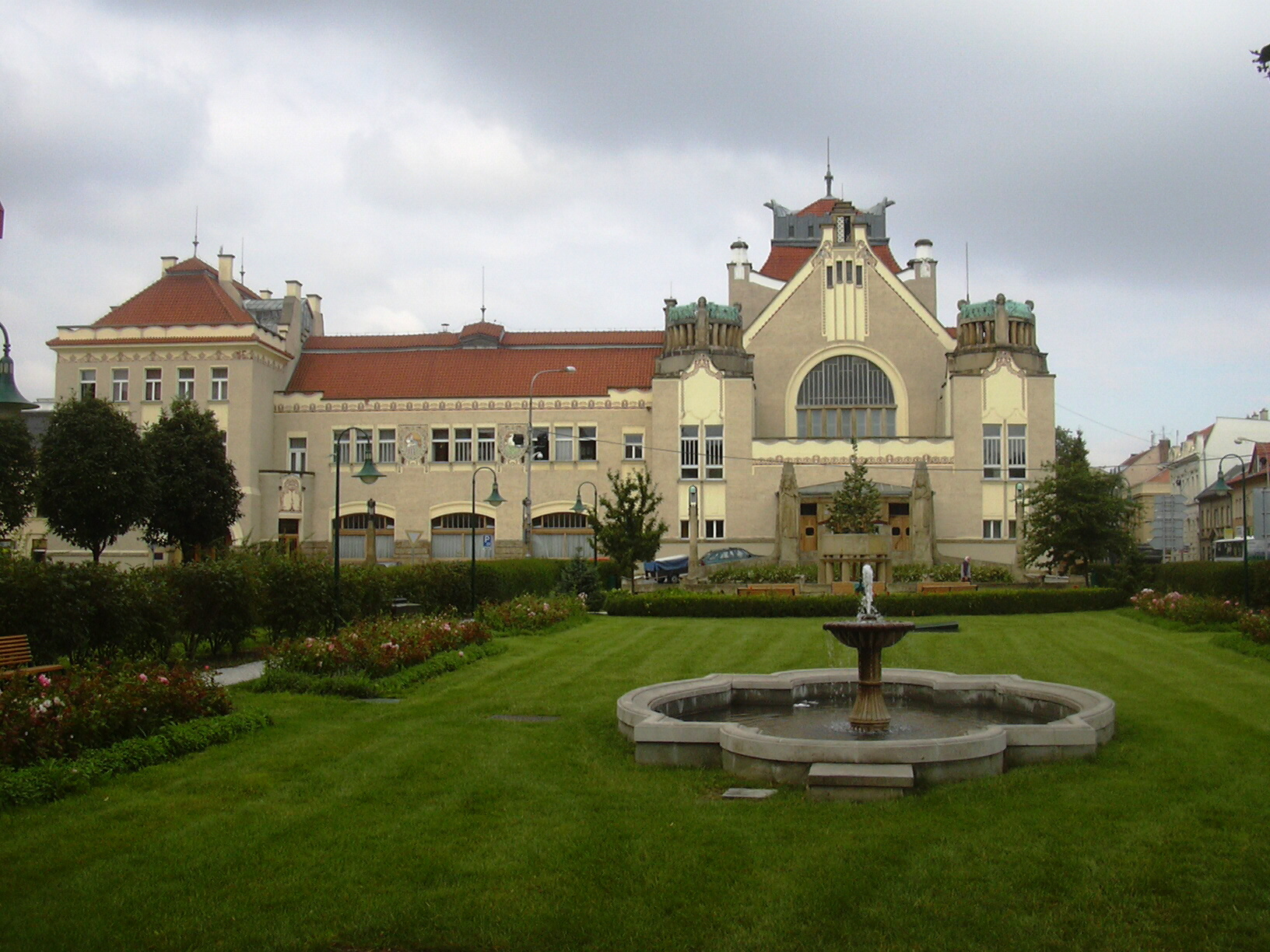 Brno